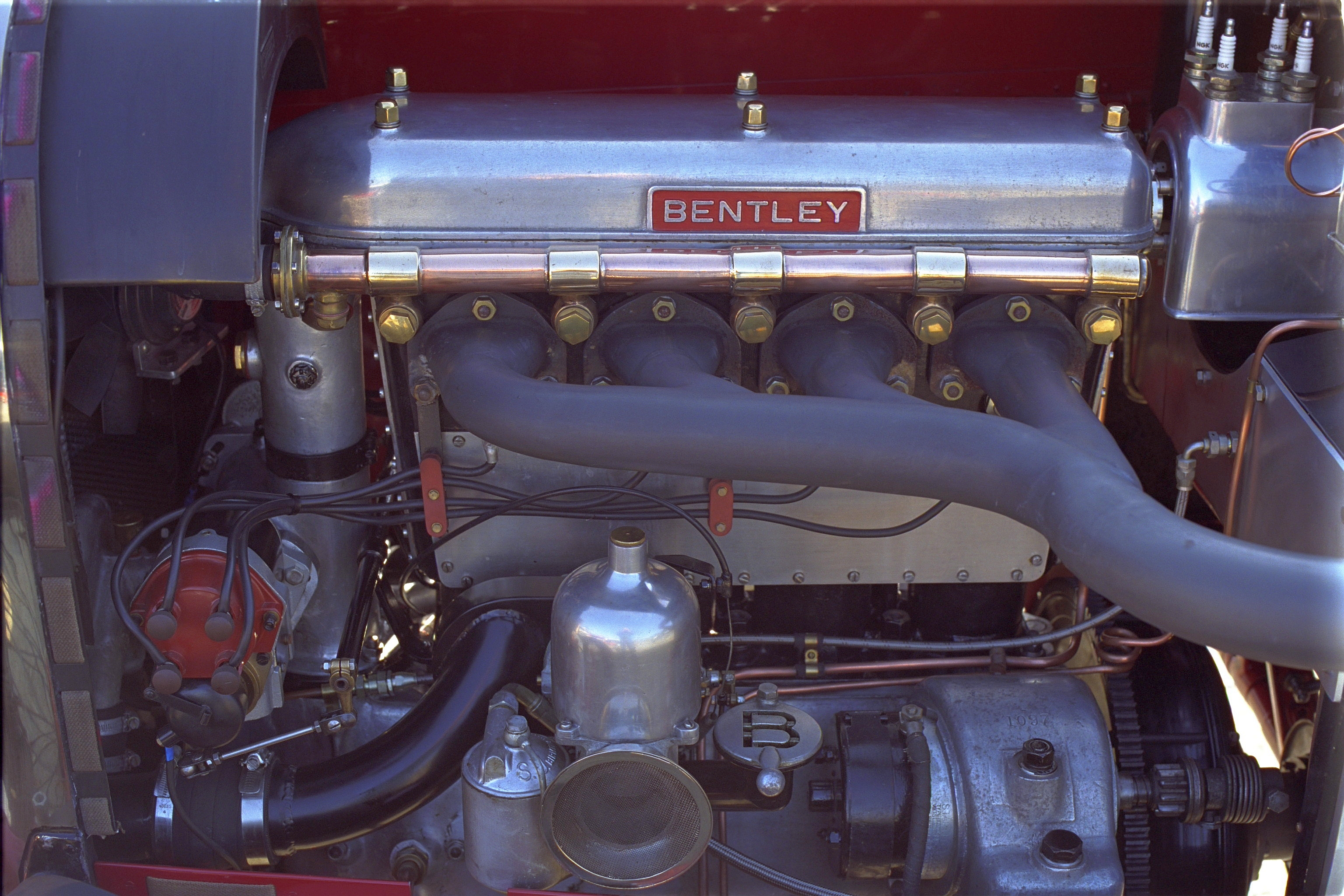 1924 3-litre Bentley in paddock at Lime Rock Park, 2000